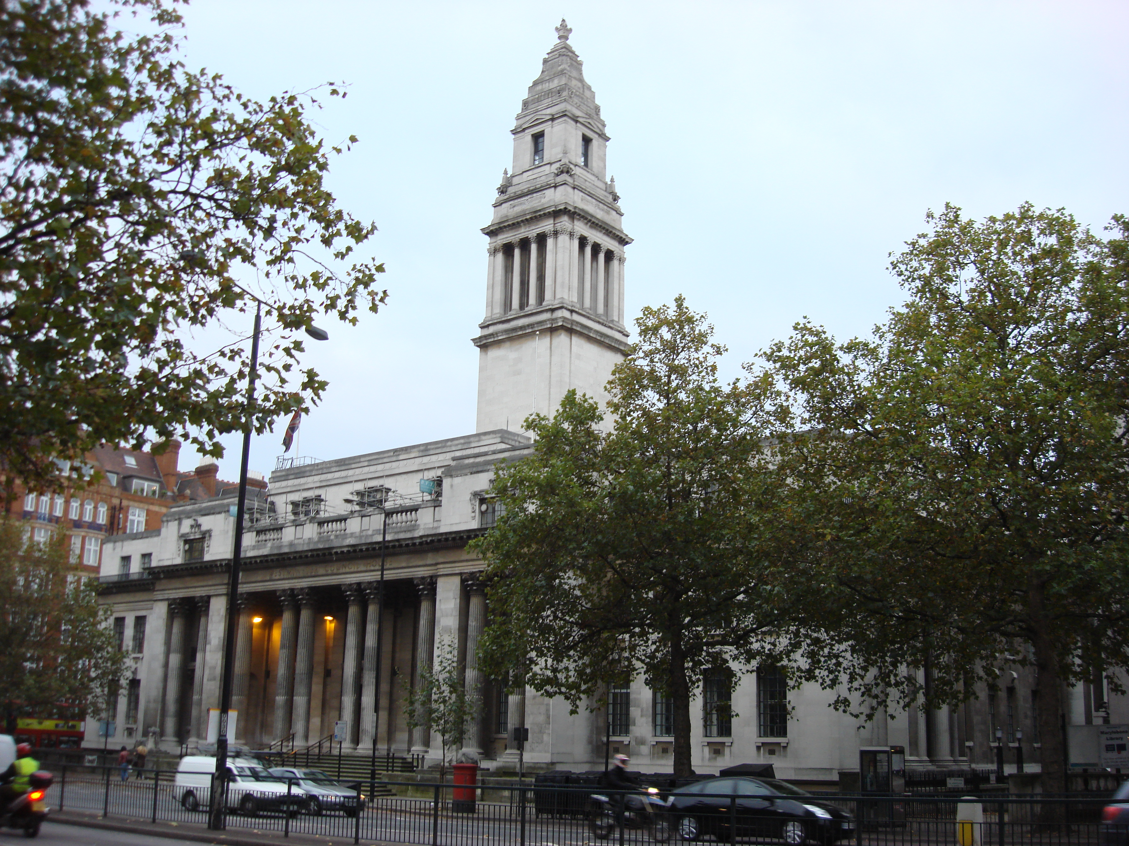 The former Metropolitan Borough of St Marylebone HQ on Marylebone Road, now City of Westminster offices